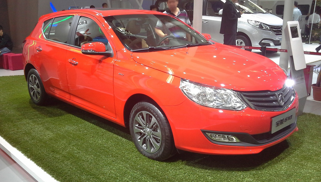 Baojun 610 photographed at the Auto China 2014, Beijing, China.